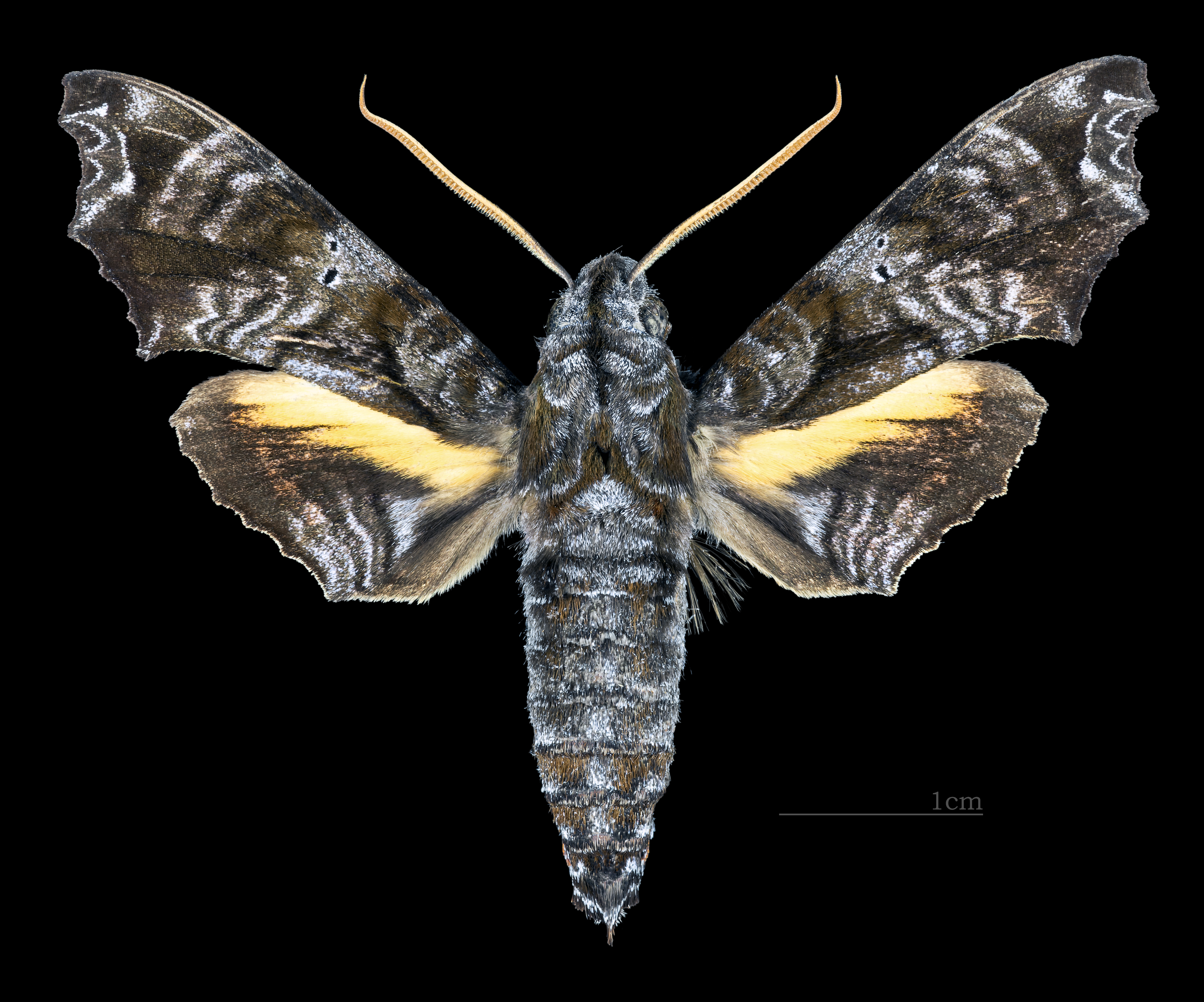 Nyceryx eximia - Dorsal side Collection of the Mathematician Laurent Schwartz